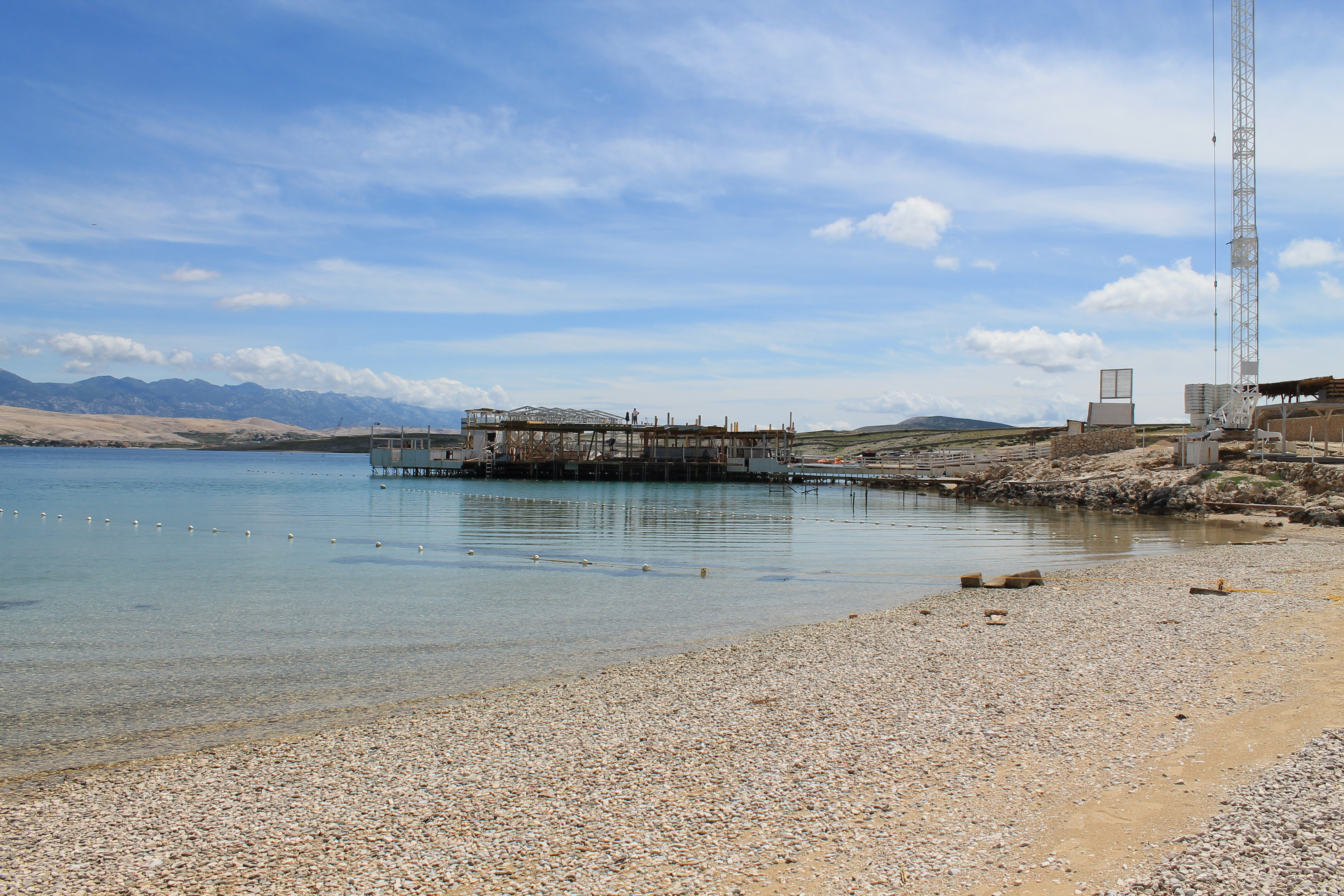 Zrce beach - Noa Beach Club